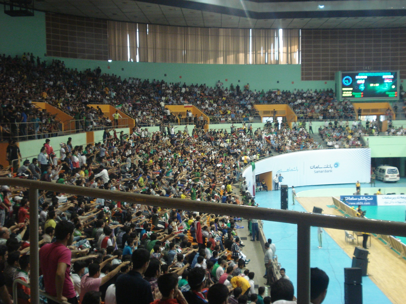 Azadi Indoor Stadium, Iran-Serbia match, 2013 World League First Round